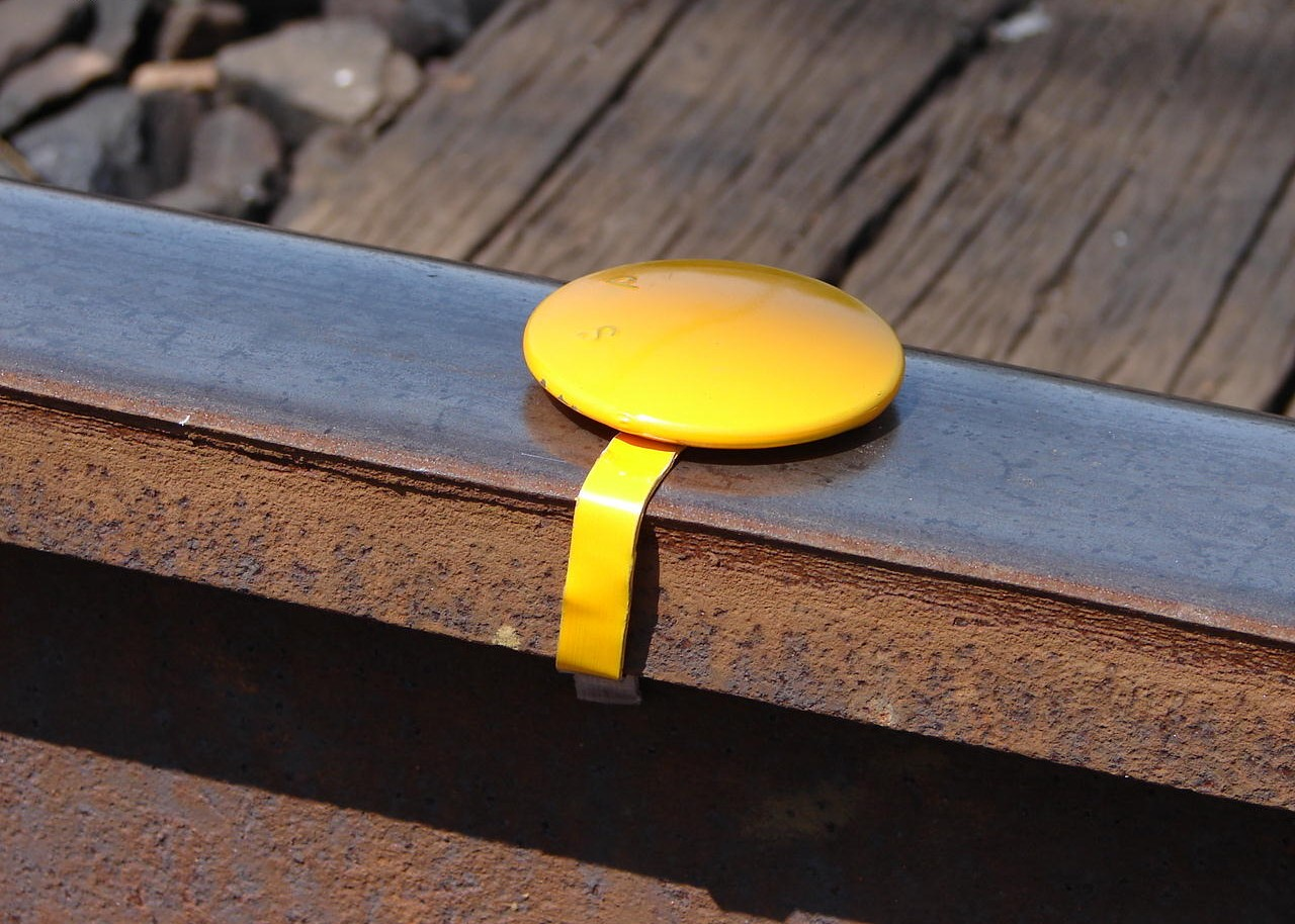 Track detonator ("torpedo" in the US) Location: Capital Park, Pretoria, Gauteng, South Africa